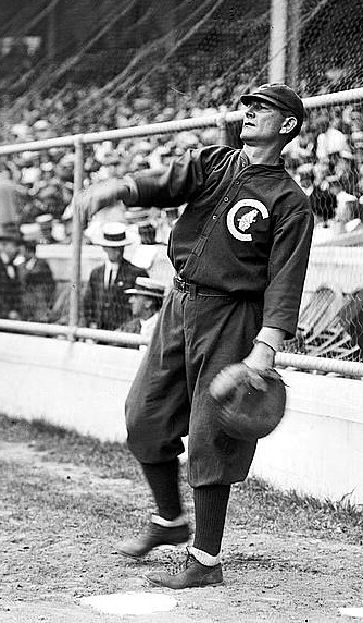 "Tom Needham, Cubs, 11/5/13" A 1913 image, from the Bain News Service, of Tom Needham.